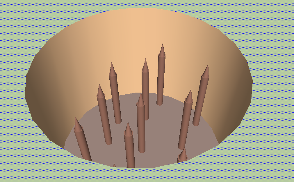 Wolftrap